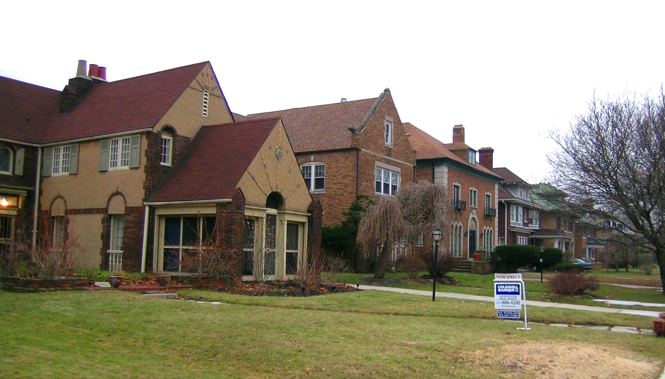 Street scape in Boston-Edison neighborhood. Taken near the corner of 14th and W. Boston. For use in Boston-Edison article.